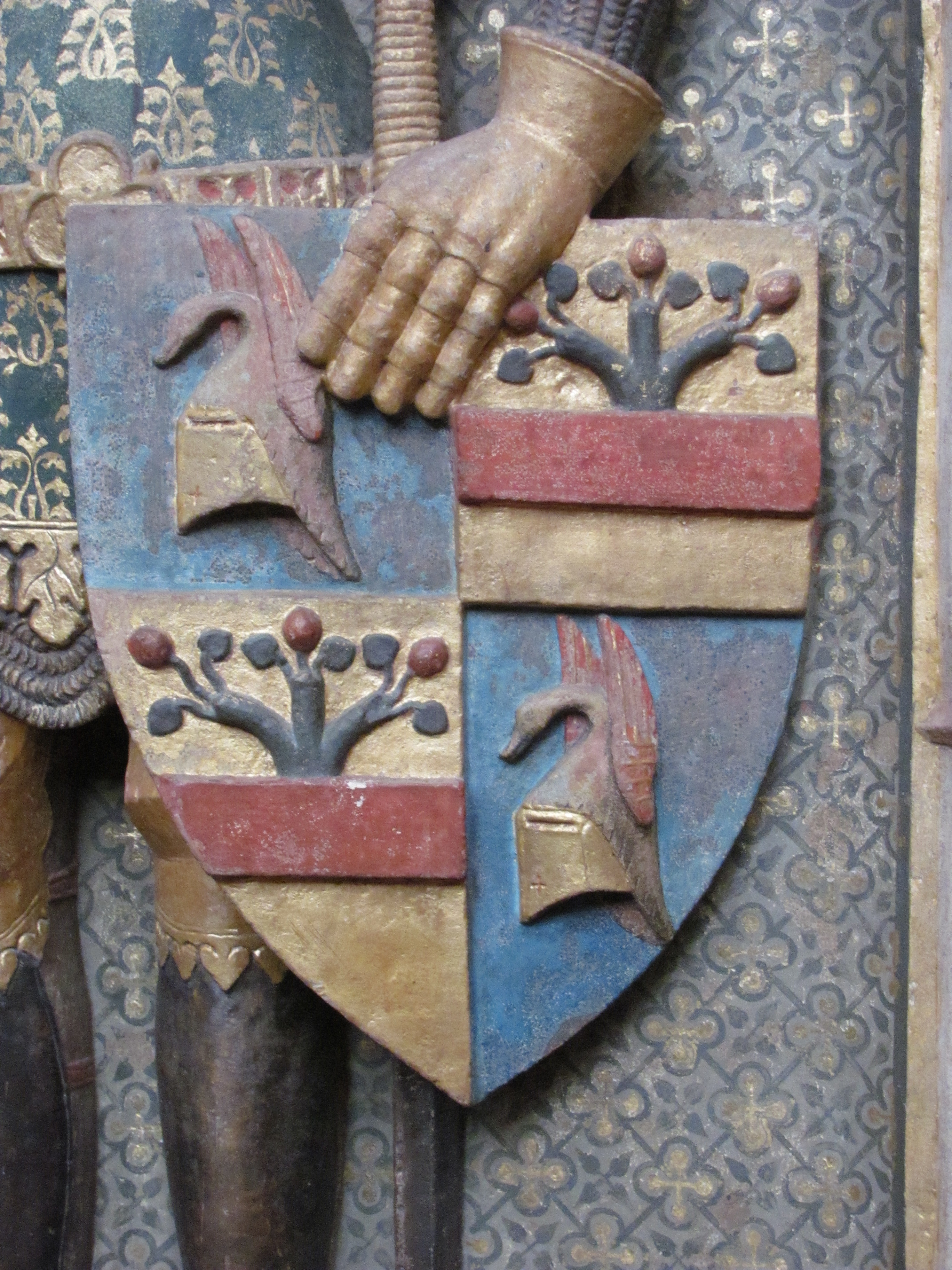 Heraldics of von Sachsenhausen Family